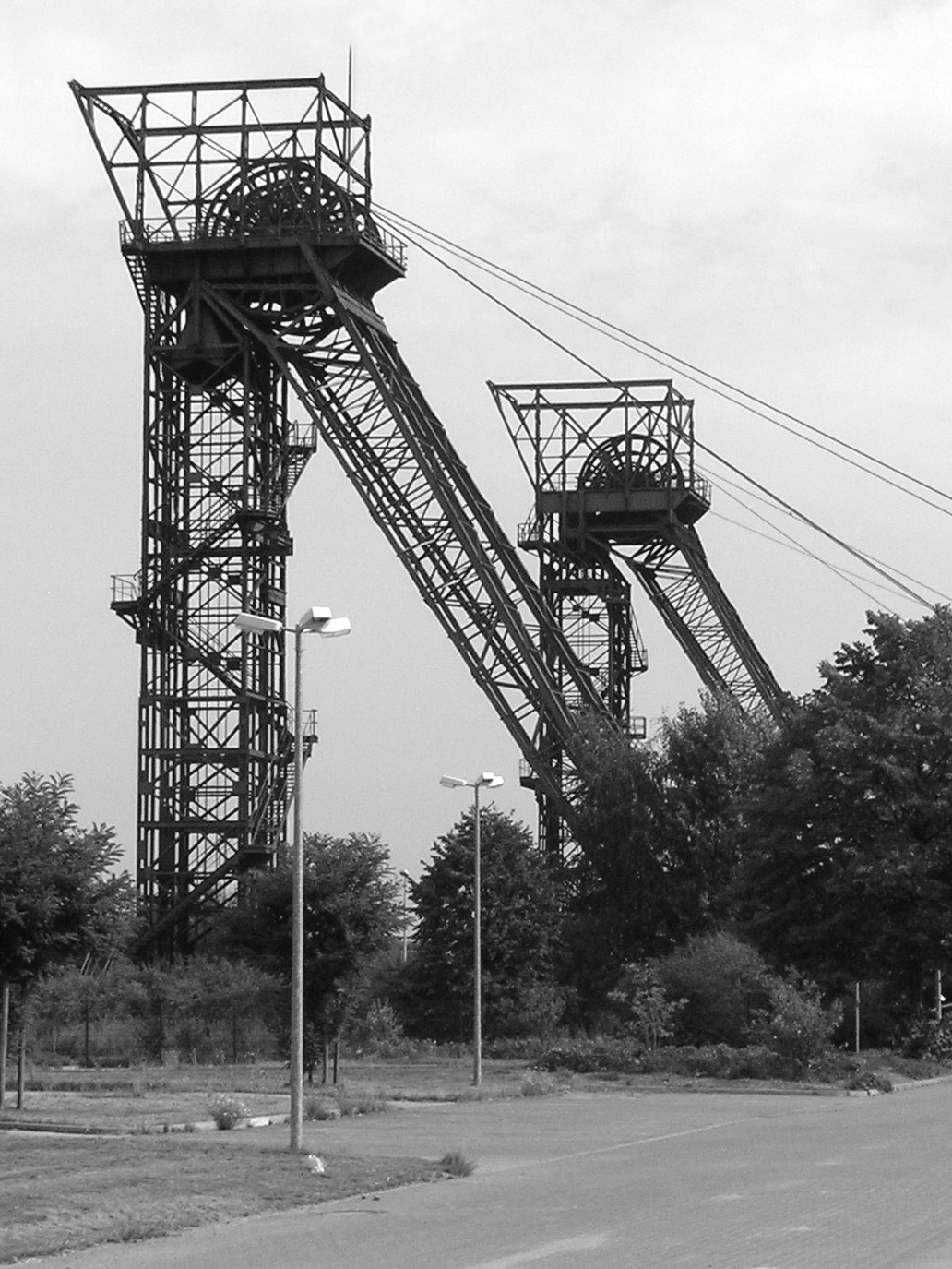 Abandoned mine shafts 1 and 2 of the Auguste Victoria mine, Marl, Germany.